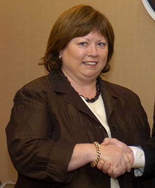 Crop of Alex Azar with Mary Harney.